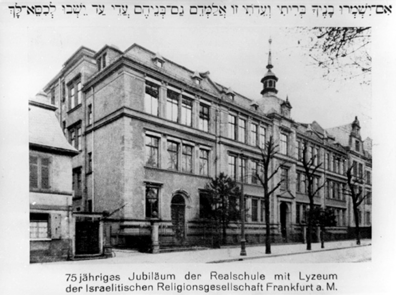 Postcard of 1928 on the occasion of the 75th anniversary of Realschule und Lyzeum der Israelitischen Religionsgesellschaft in Frankfurt am Main, Hesse, Germany. During the anniversary the school which was founded in 1853 was renamed to Samson-Raphael-Hirsch-Schule to honour its founder. The picture shows the direct connection of the school building (inaugurated in 1881) to the Kaiser-Friedrichs-Gymnasium (today: Heinrich-von-Gagern-Gymnasium) which opened in 1888. The part of building on the far right with the high rooftop already belongs to this Gymnasium.